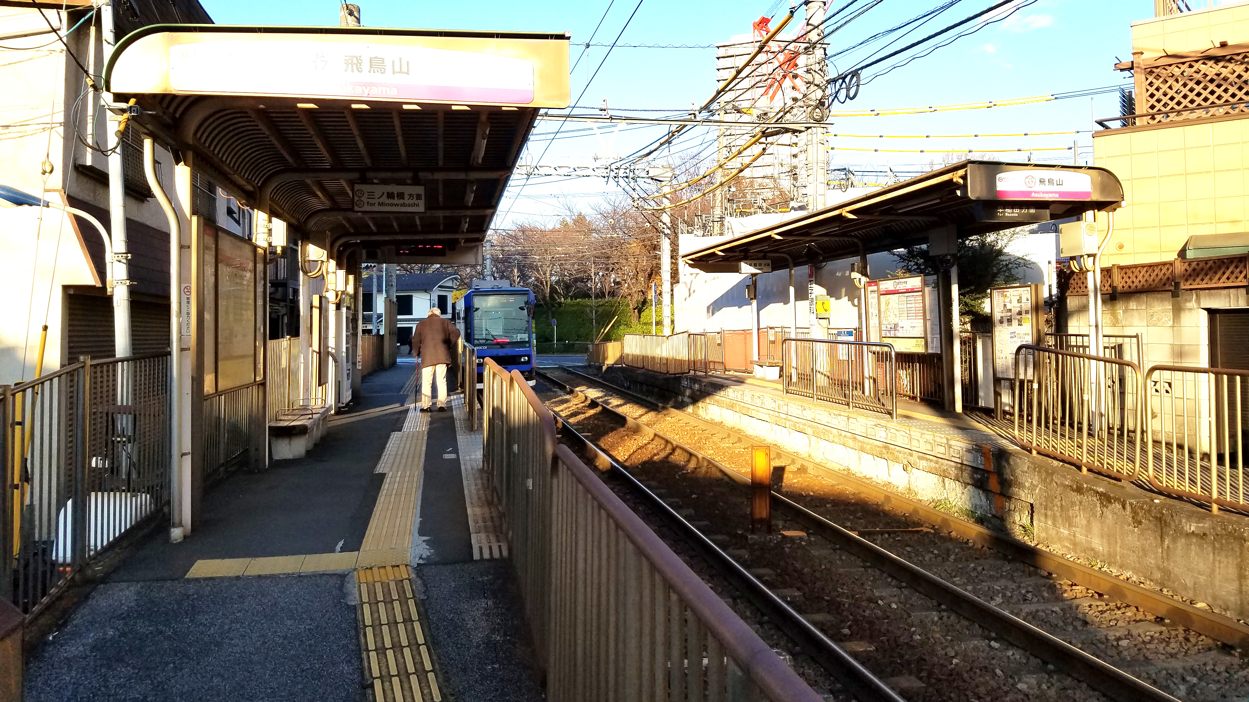 The platforms at Asukayama Station on the Toden Arakawa Line(Tokyo Sakura Tram) in Kita city, Tokyo, Japan